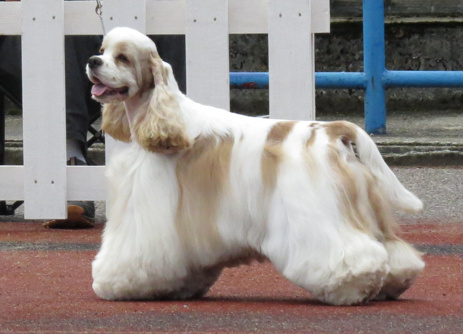 American Cocker in Tallinn duo CACIB, 17-18 Aug 2013